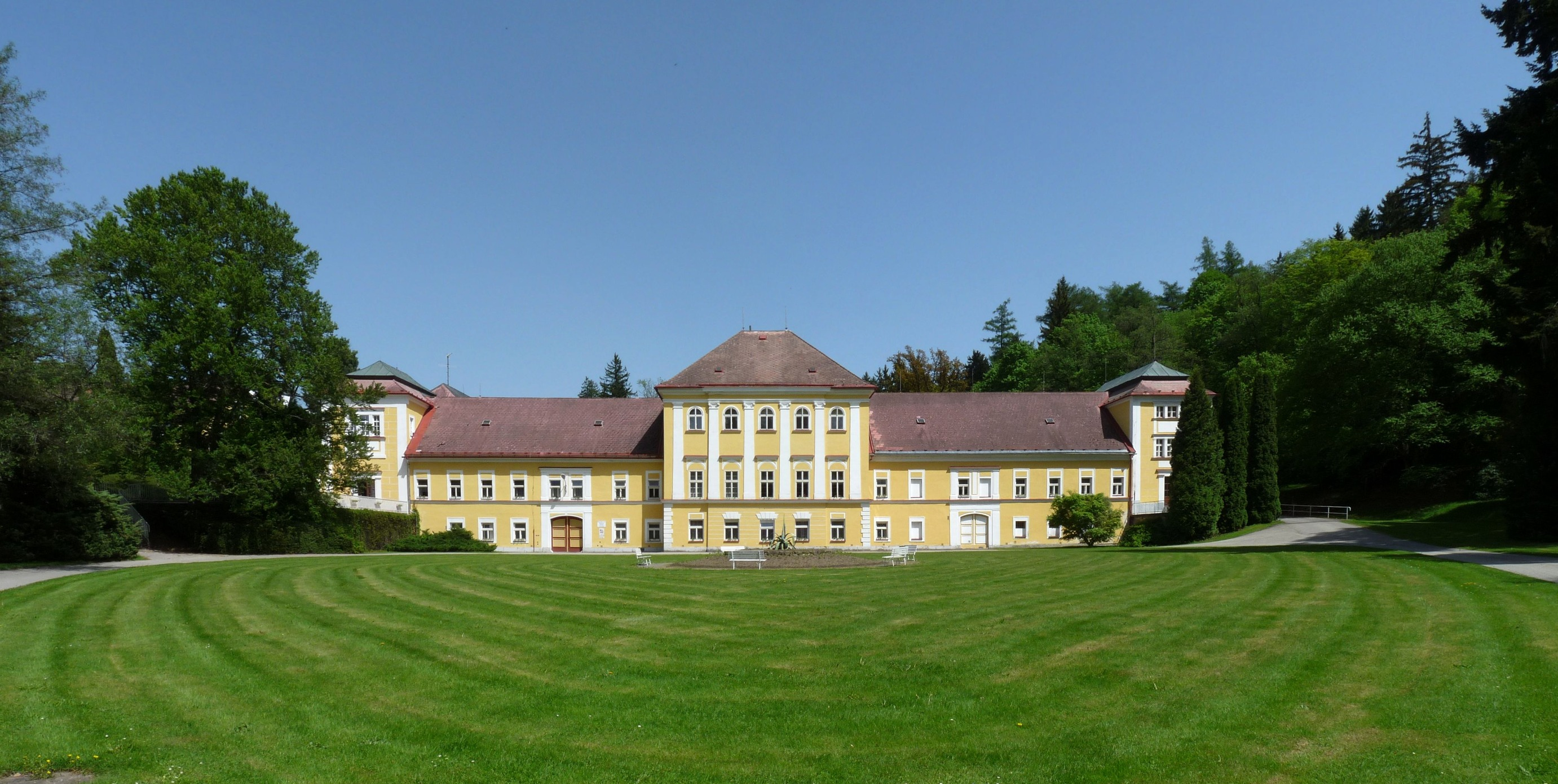 Chateau in the town of Černovice, Pelhřimov District, Vysočina Region, Czech Republic.